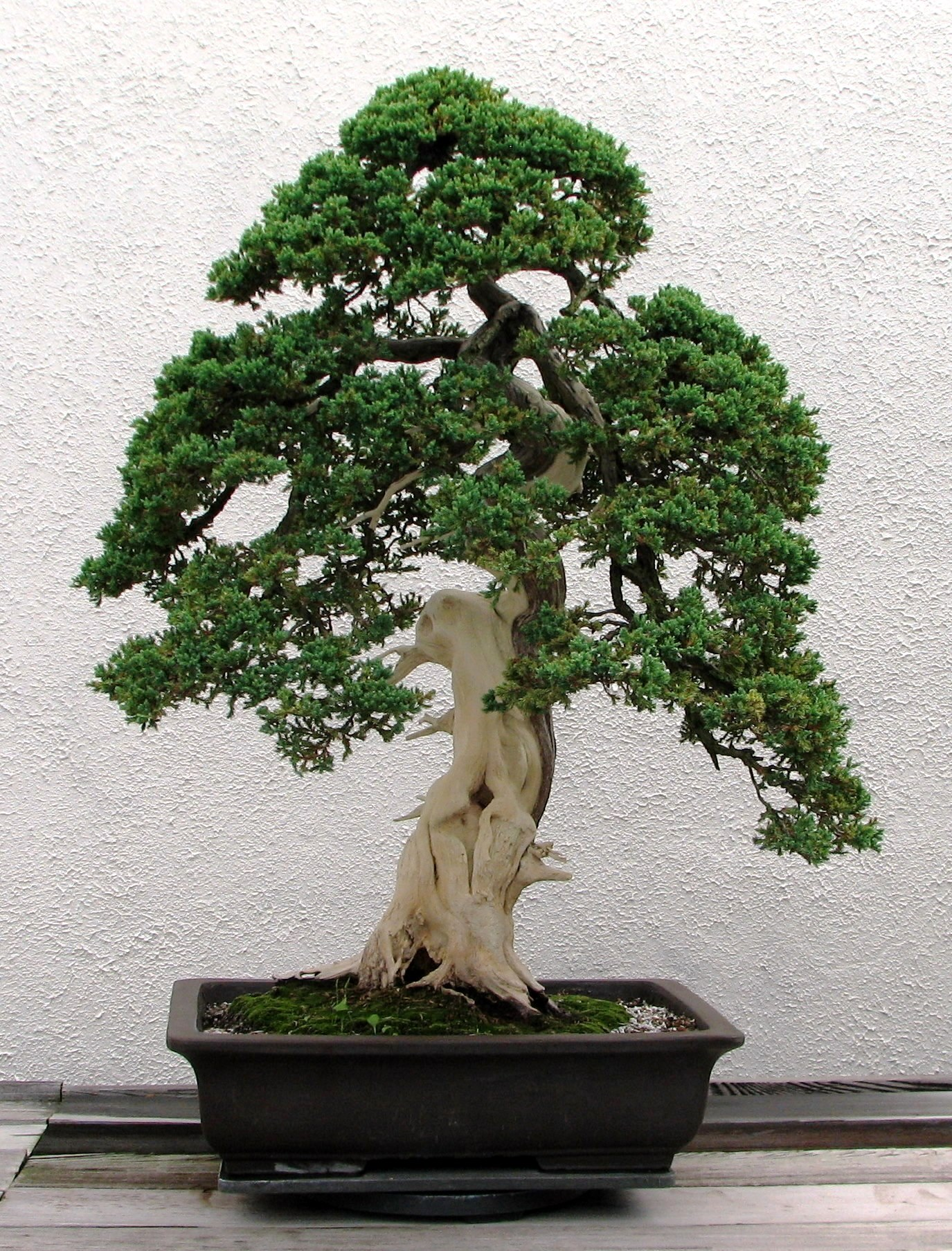 A Dwarf Japanese Juniper (Juniperus procumbens 'Nana') bonsai on display at the National Bonsai & Penjing Museum at the United States National Arboretum. According to the tree's display placard, it has been in training since 1975. It was donated by Thomas Tecza. This is the "back" of the tree. 4.20 ft tall